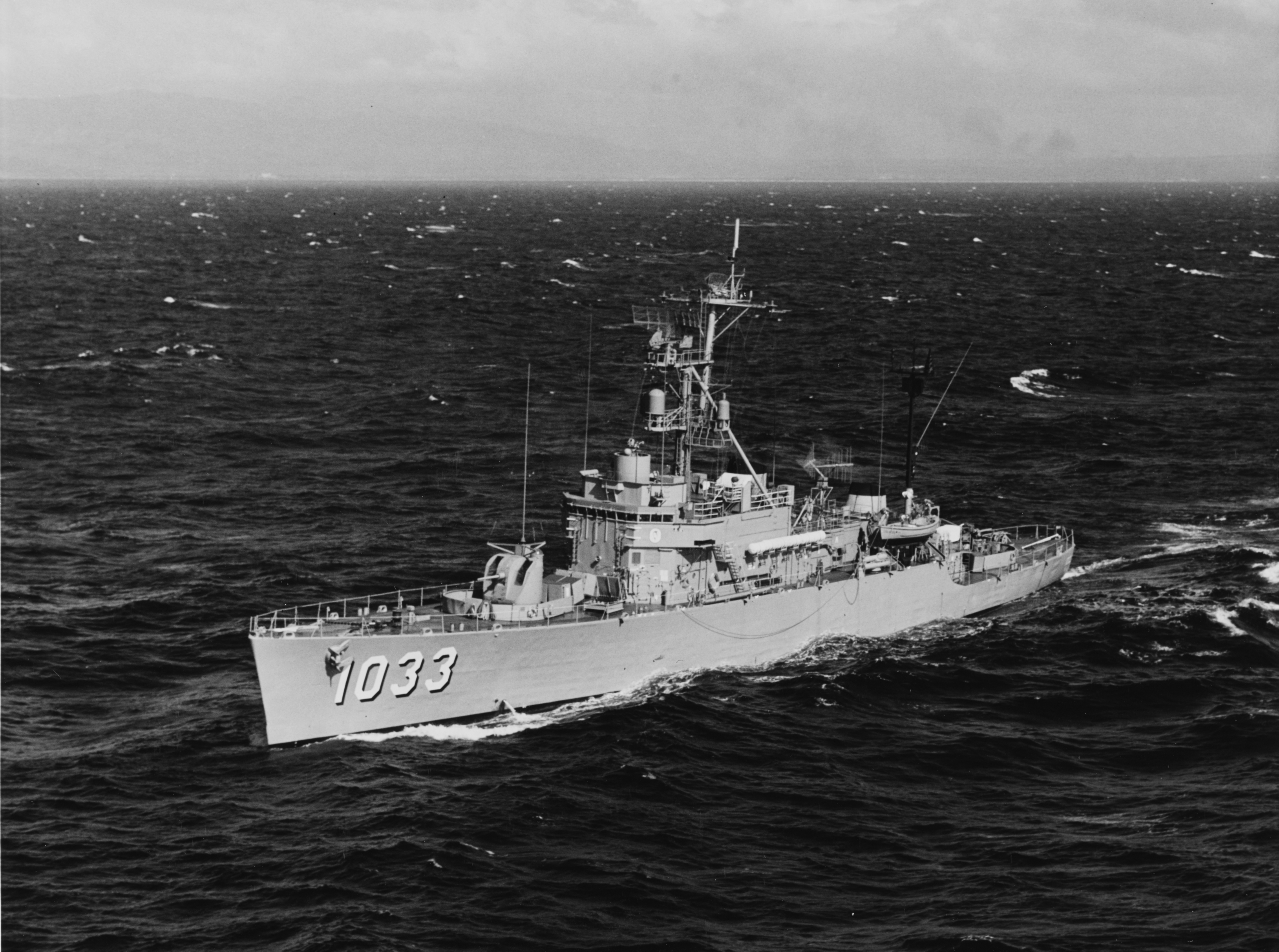 The U.S. Navy destroyer escort USS Claud Jones (DE-1033) underway off the coast of Oahu, Hawaii (USA), on 22 February 1971.